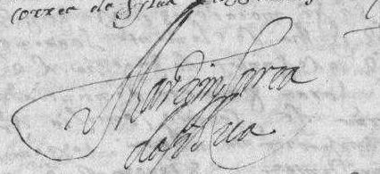 Signature of Martim Correia da Silva (II), alcaide-mor de Tavira (1618)